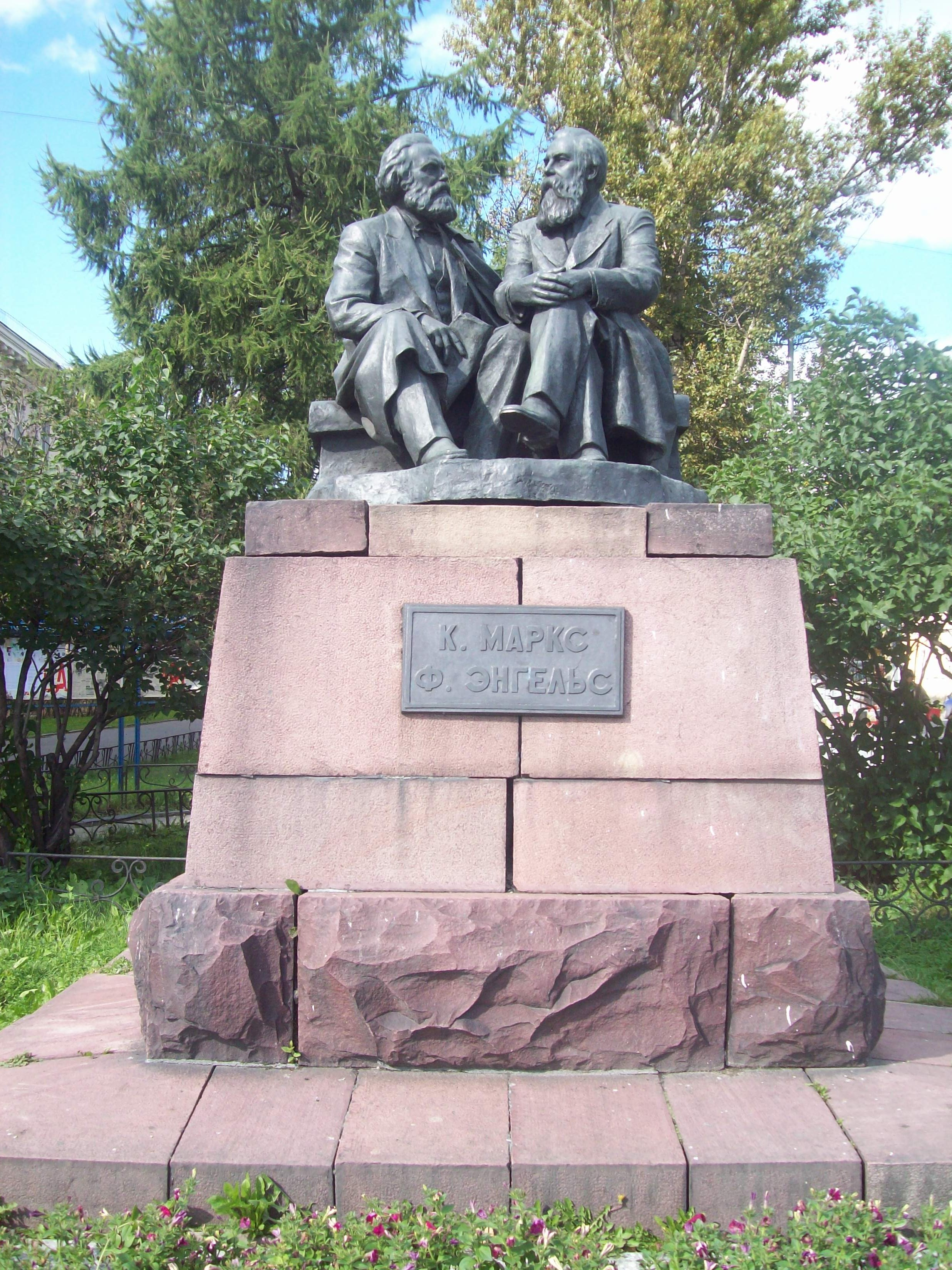 Monument to Karl Marx and Friedrich Engels at the intersection of Karl Marx avenue and Kuibyshev streets